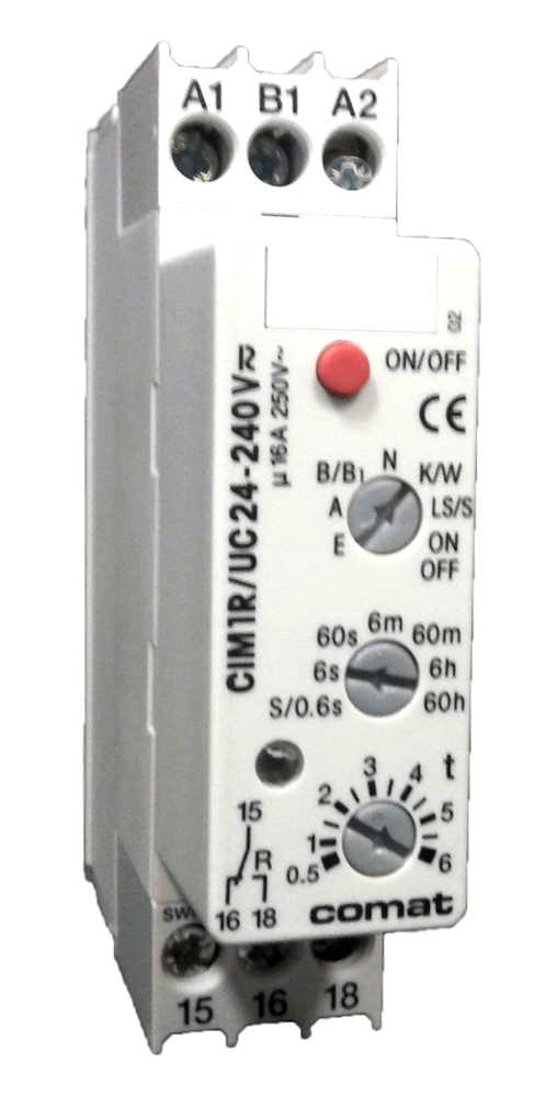 timer Tetun: temporizador